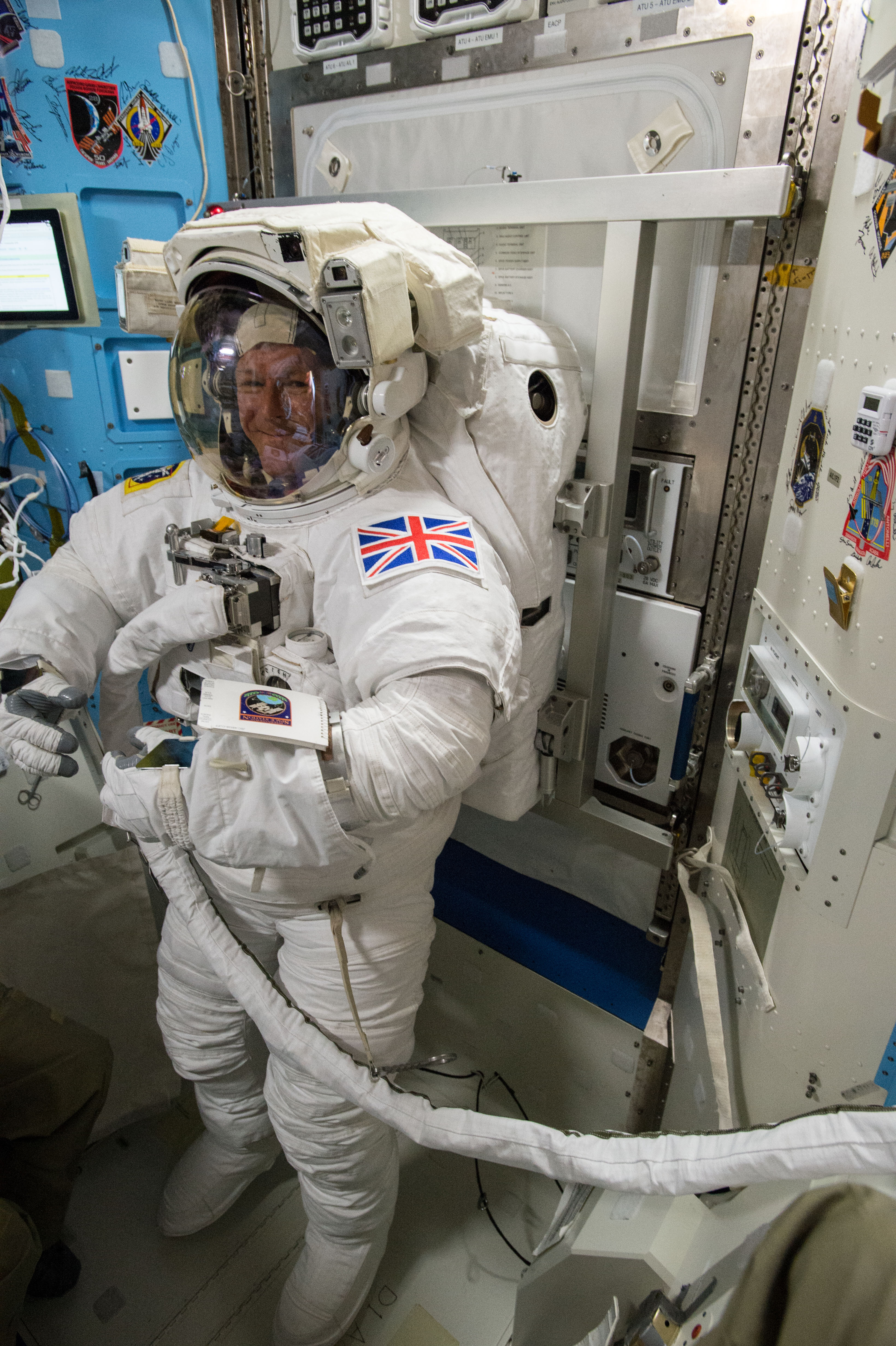 ESA (European Space Agency) astronaut Timothy Peake of Expedition 46 conducts a final fit check inside the spacesuit he will wear during a planned 6.5 hour spacewalk. Peake and NASA astronaut Tim Kopra will work outside of the International Space Station on Jan. 15, 2016 to replace a failed voltage regulator in order to restore the station's power generation system to its normal configuration.